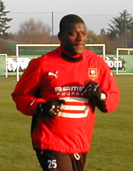 Lucien Aubey training with Stade Rennais F.C. on December 29, 2008.